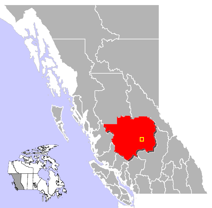 Location of Williams Lake, Cariboo District, BC